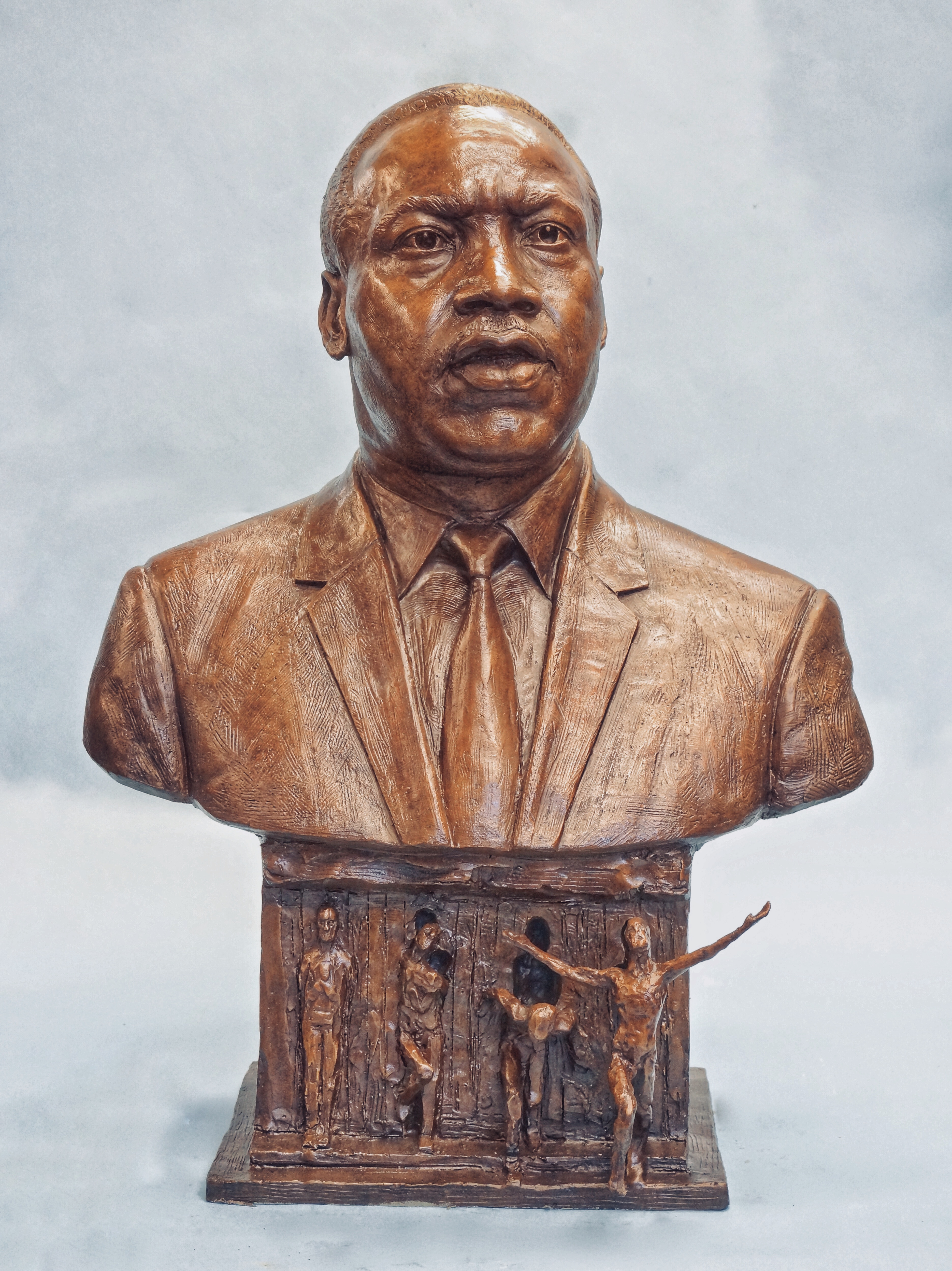 Martin Luther King and Freedom sculpture by Zenos Frudakis.